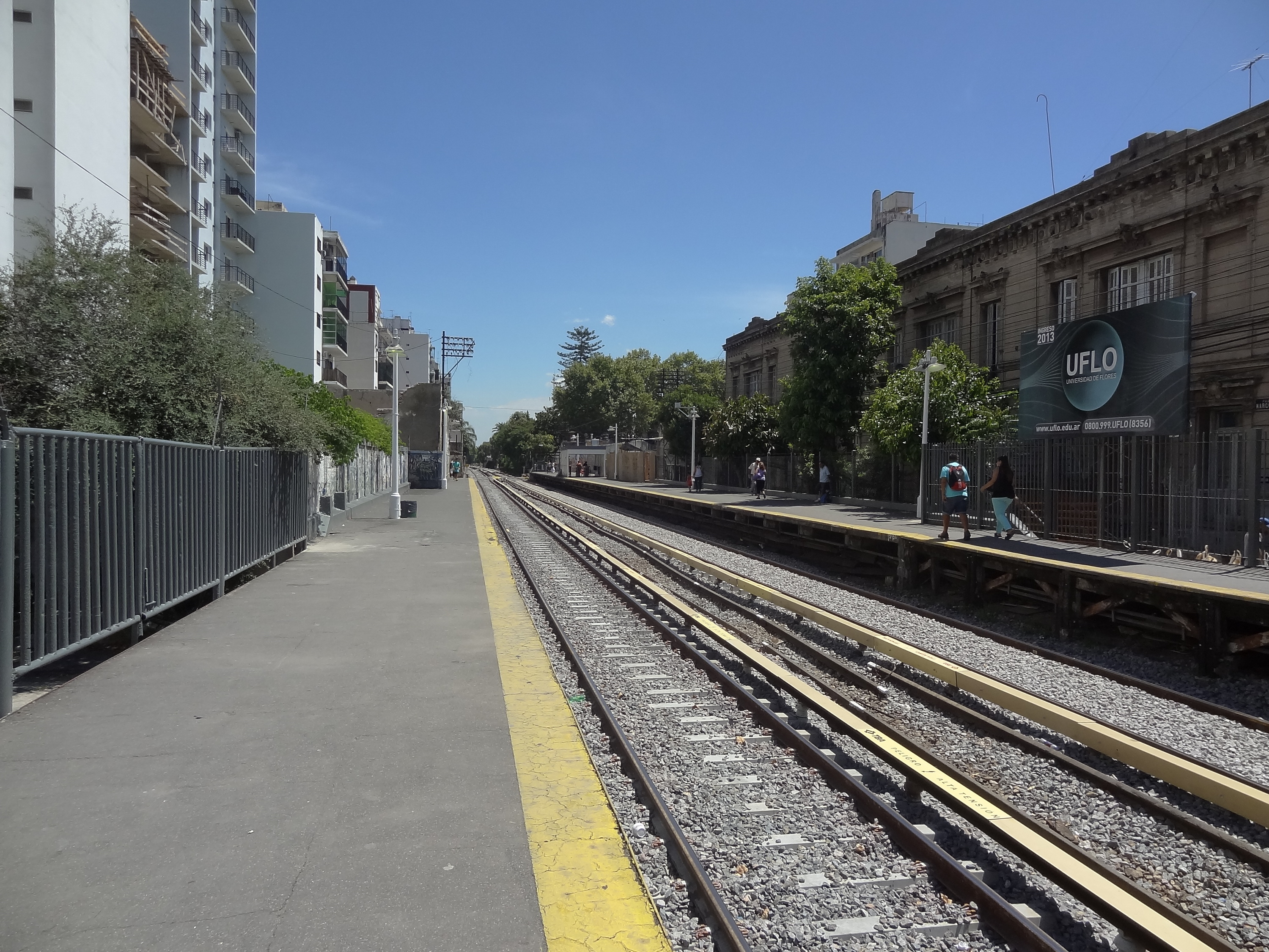 Flores train station on the Sarmiento Line in Buenos Aires